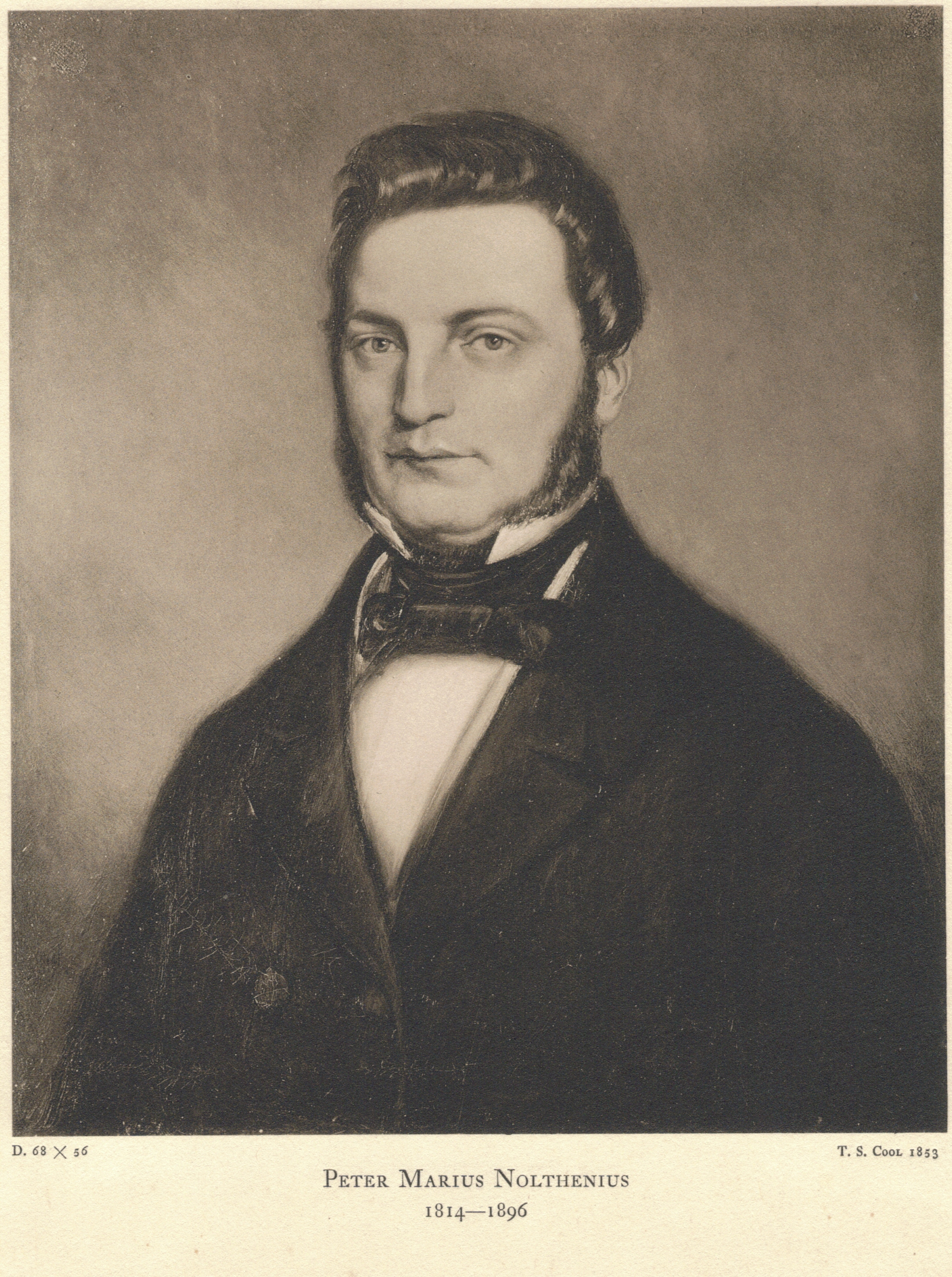 Portrait of Peter Marius Tutein Nolthenius (1814-1896)